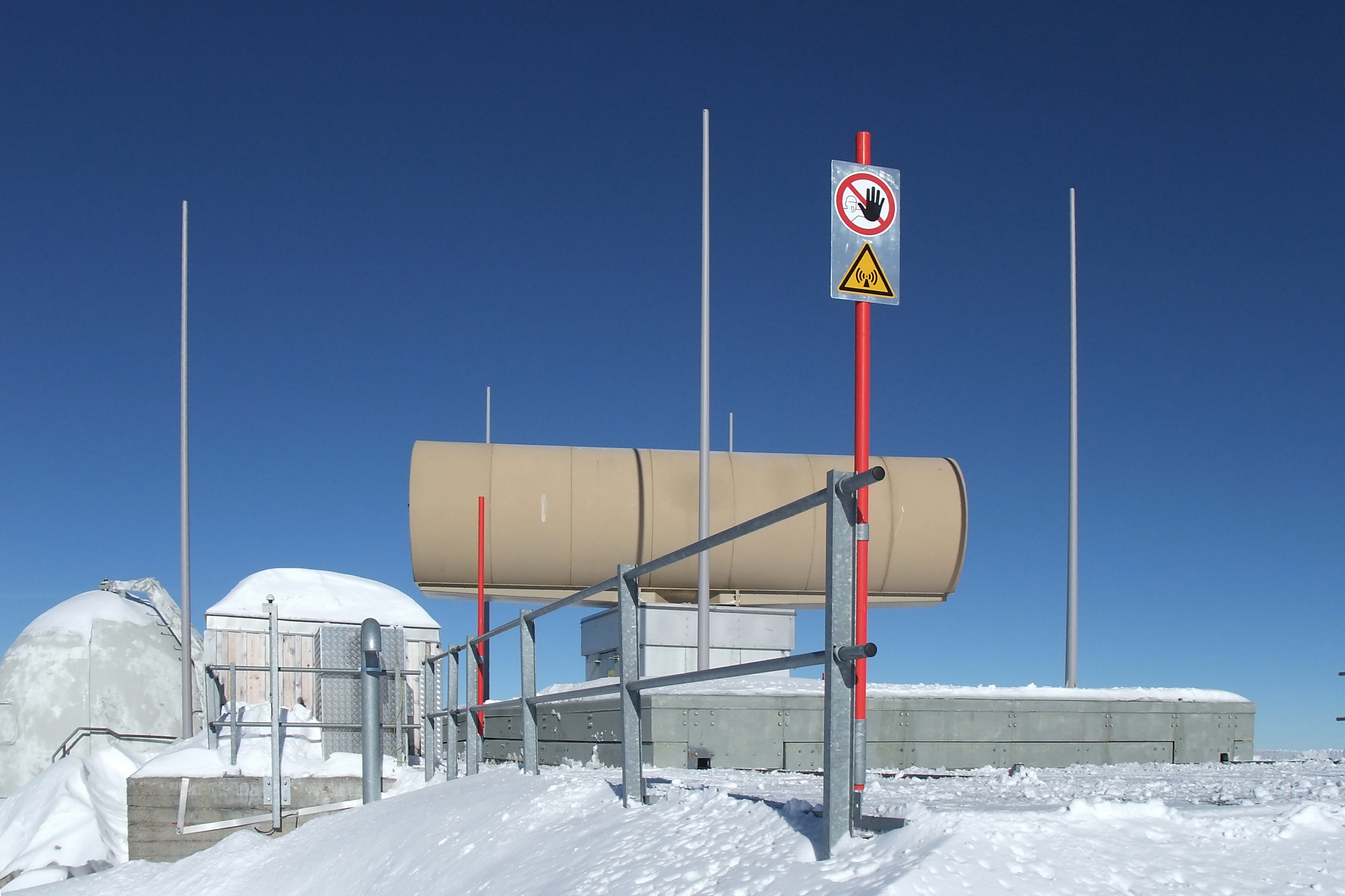 Antenna of a FLORAKO flight operations, radar and command system in the alps. These systems have a range of over 400 km and are installed at fixed locations on several higher mountains. This facility is located at about 2800 m ASL. They are used for controlling the Swiss airspace and for coordination of civil and military air traffic. The exact locations are officially classified. Switzerland, Jan 27, 2011.